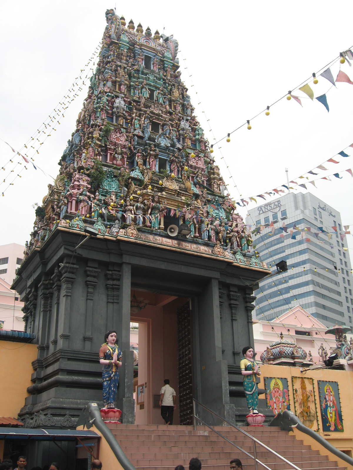 Johor Bahru Sri Mariamman Temple.